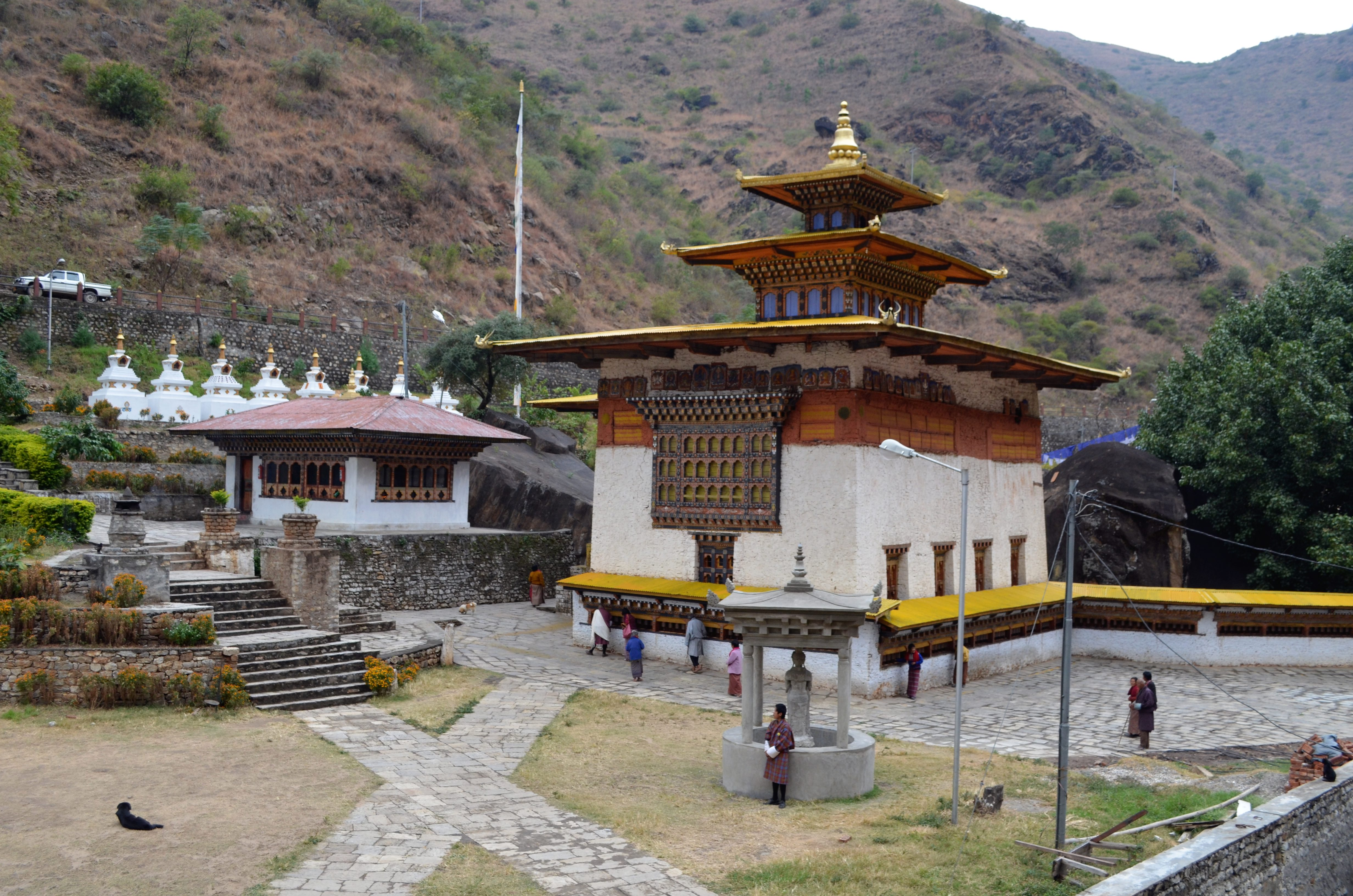 Gomphuk Khora (Gomkor) Temple , Tashiyangtse, Bhutan